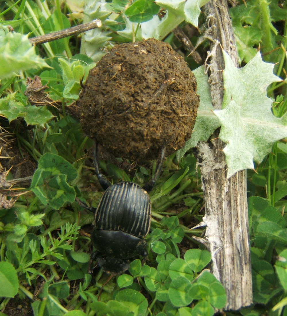 a dung beetle, near the giant tomb Sa Ena 'e Thomes, Sardinia, Italy